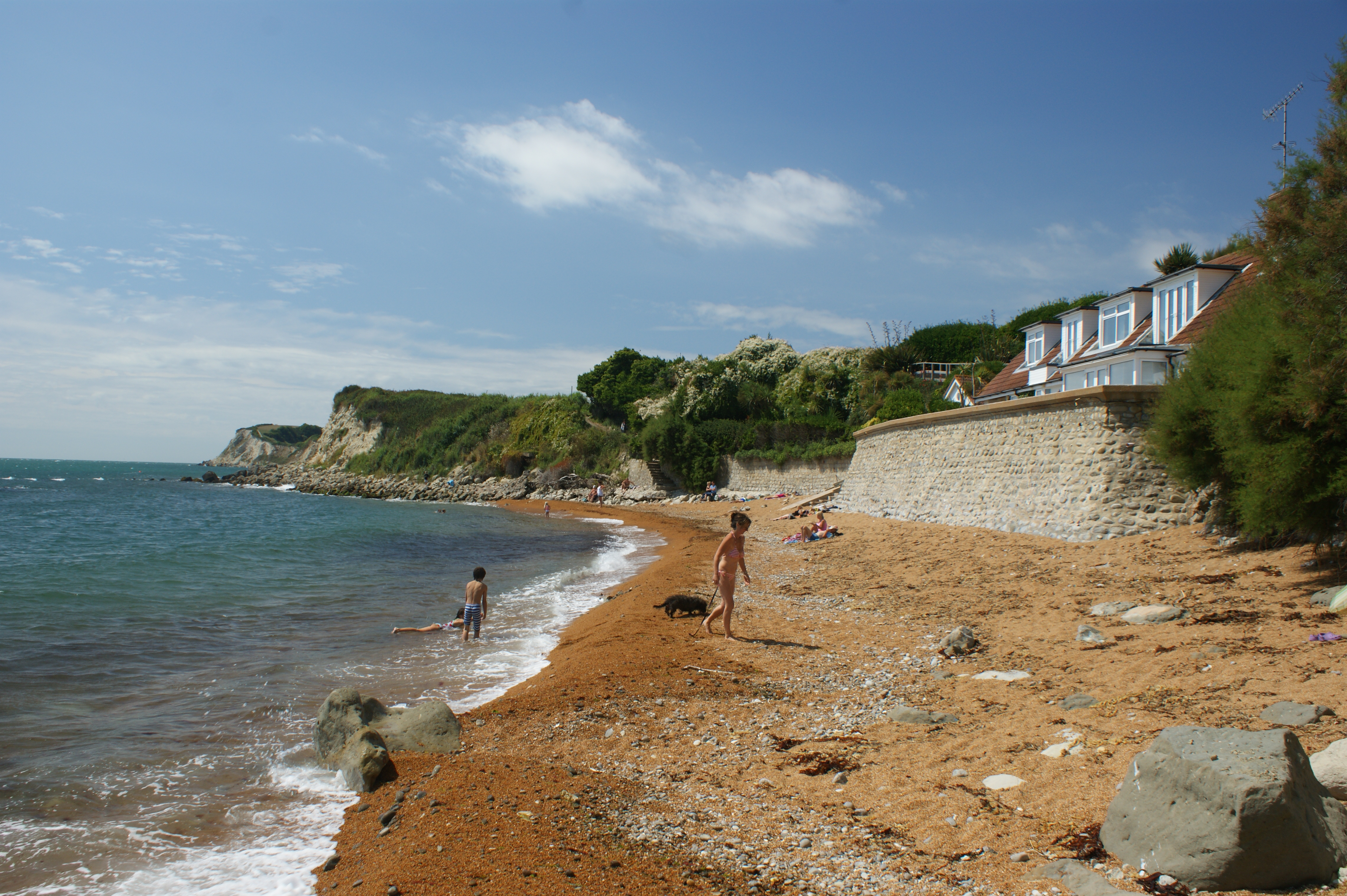 Orchard Bay, just west of Ventnor on the south coast of the Isle of Wight.